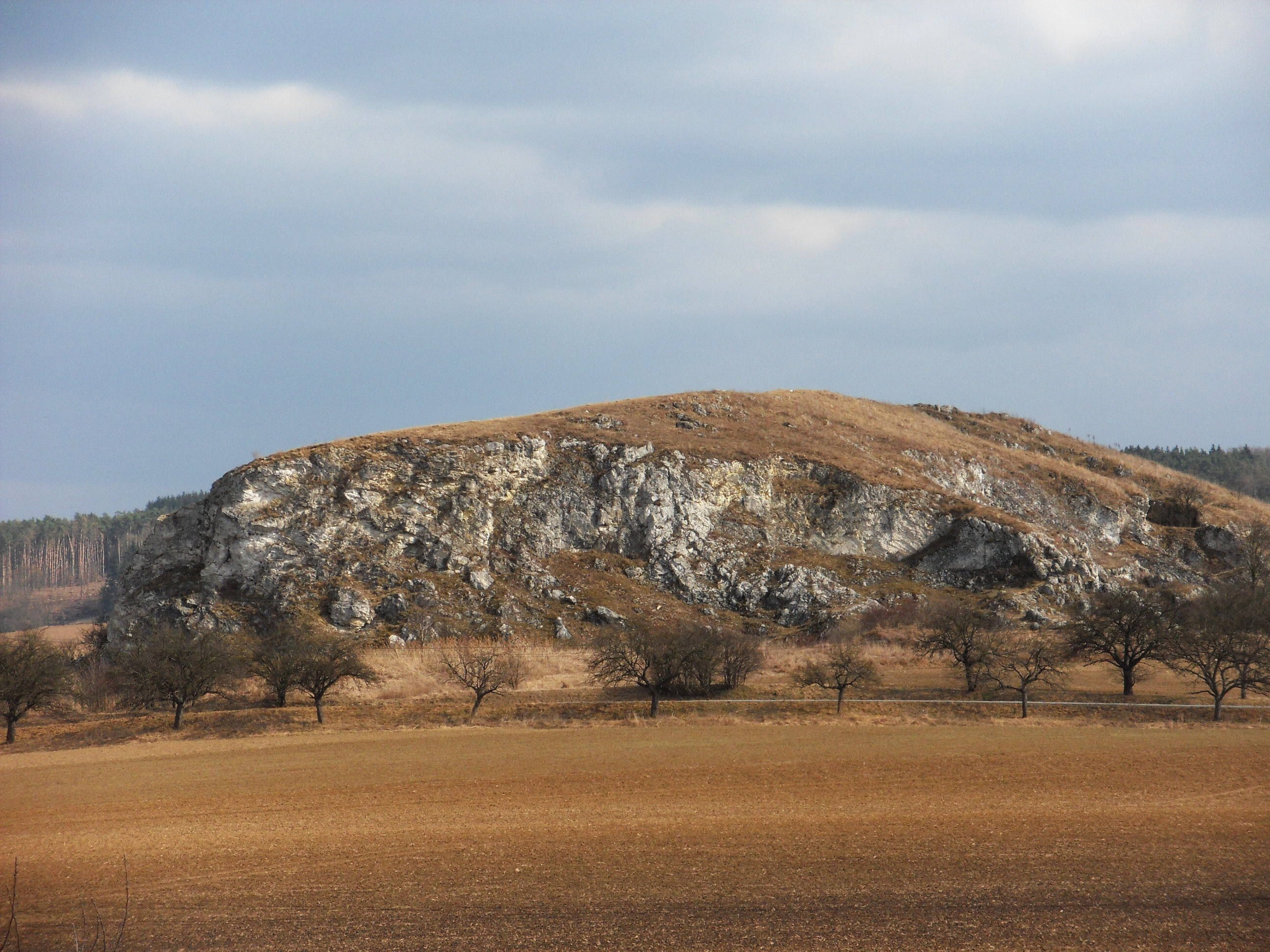 Natural monument Malhostovická pecka, Malhostovice, Brno-Country district, Czech Republic